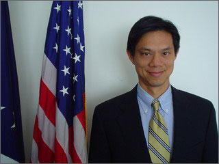 Consular General Hoyt B. Yee